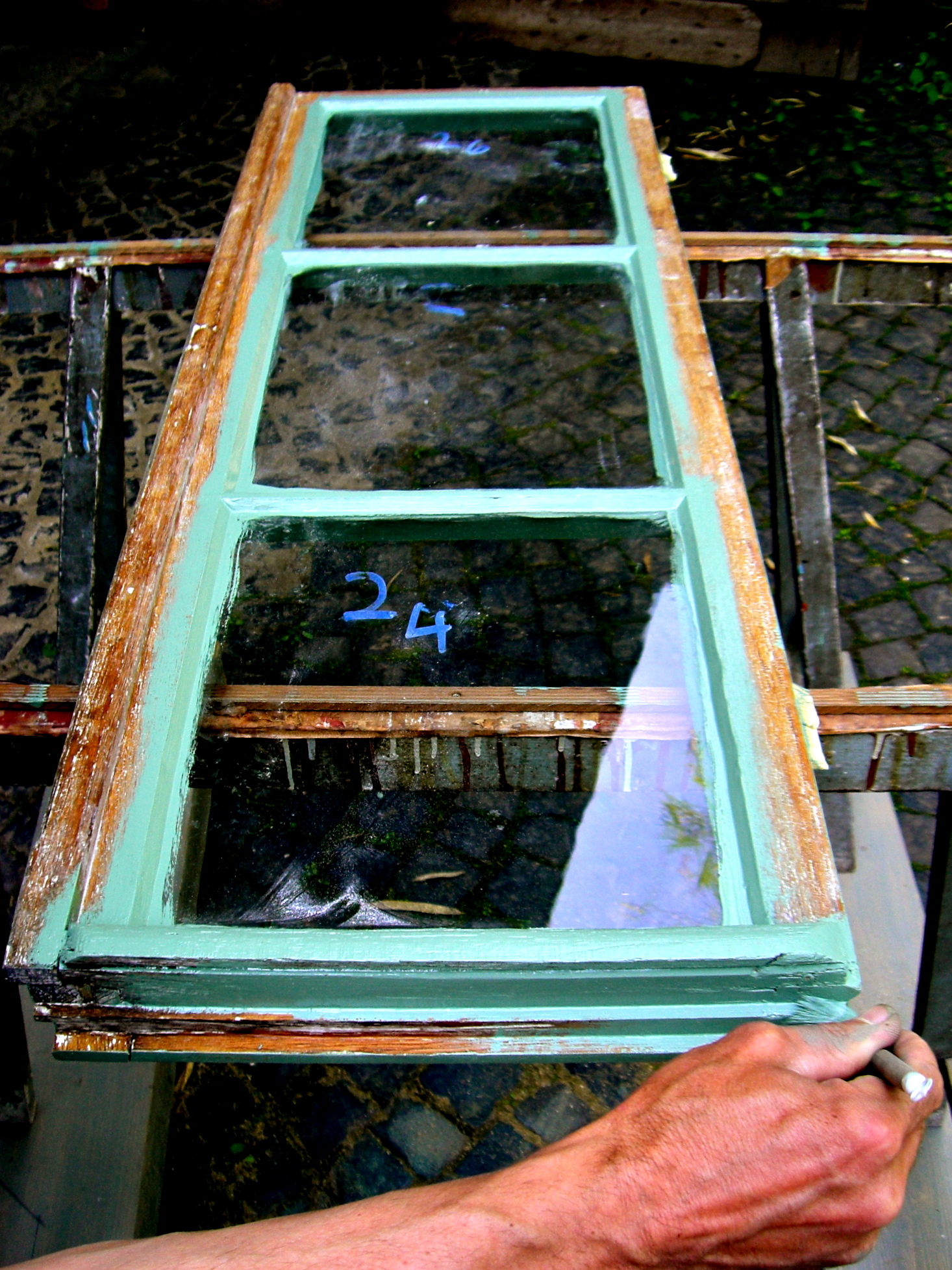 Historical windows were painted with linseed oil paint. Scandinavian and German "Windowcraftsmen" (Fönsterhantverkare, Fensterhandwerker), restorers of historical windows use the same paint without solvents.